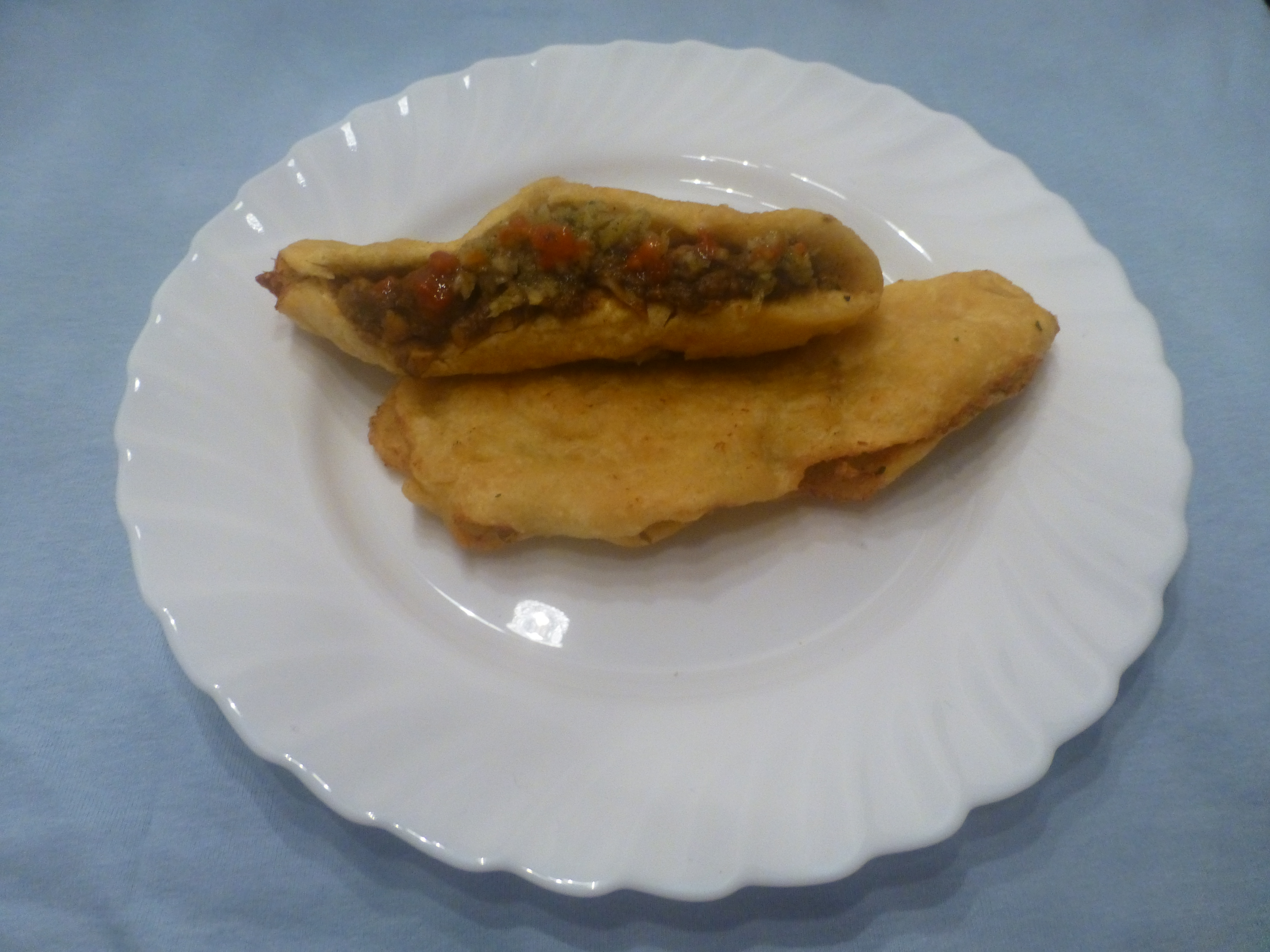 Aloo pie is a soft, fried pastry from Trinidad & Tobago filled with mashed and spiced potatoes, chickpea curry and various toppings. Step 7/7: A complete aloo pie with mashed potatoes, channa (chickpea curry), optional mango chutney and optional pepper sauce. It's being sold like this in the streets.